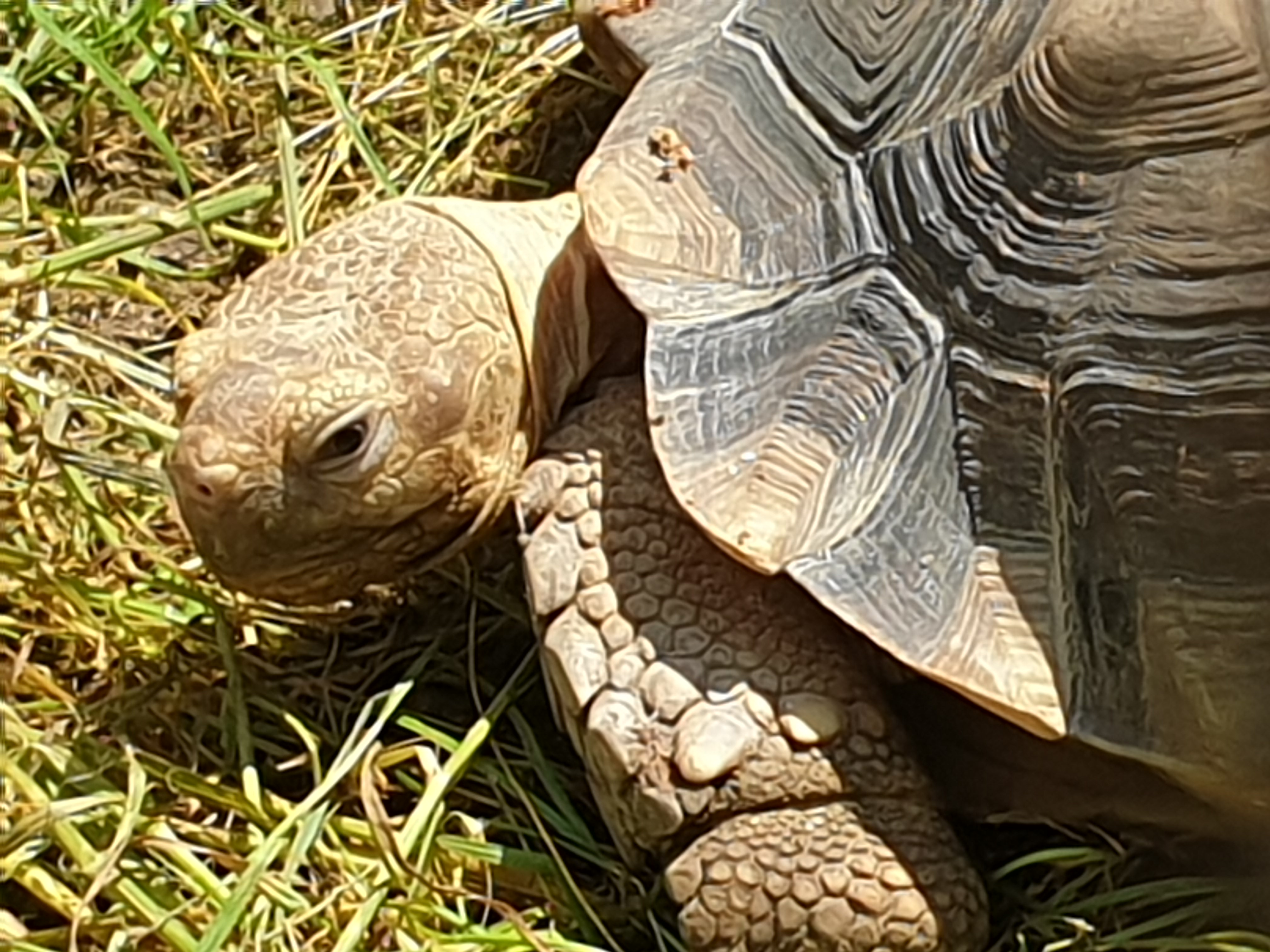 African spurred tortoise (Centrochelys sulcata) at the Kittenberger Kálmán Zoo and Botanical Garden in Veszprém, Hungary.